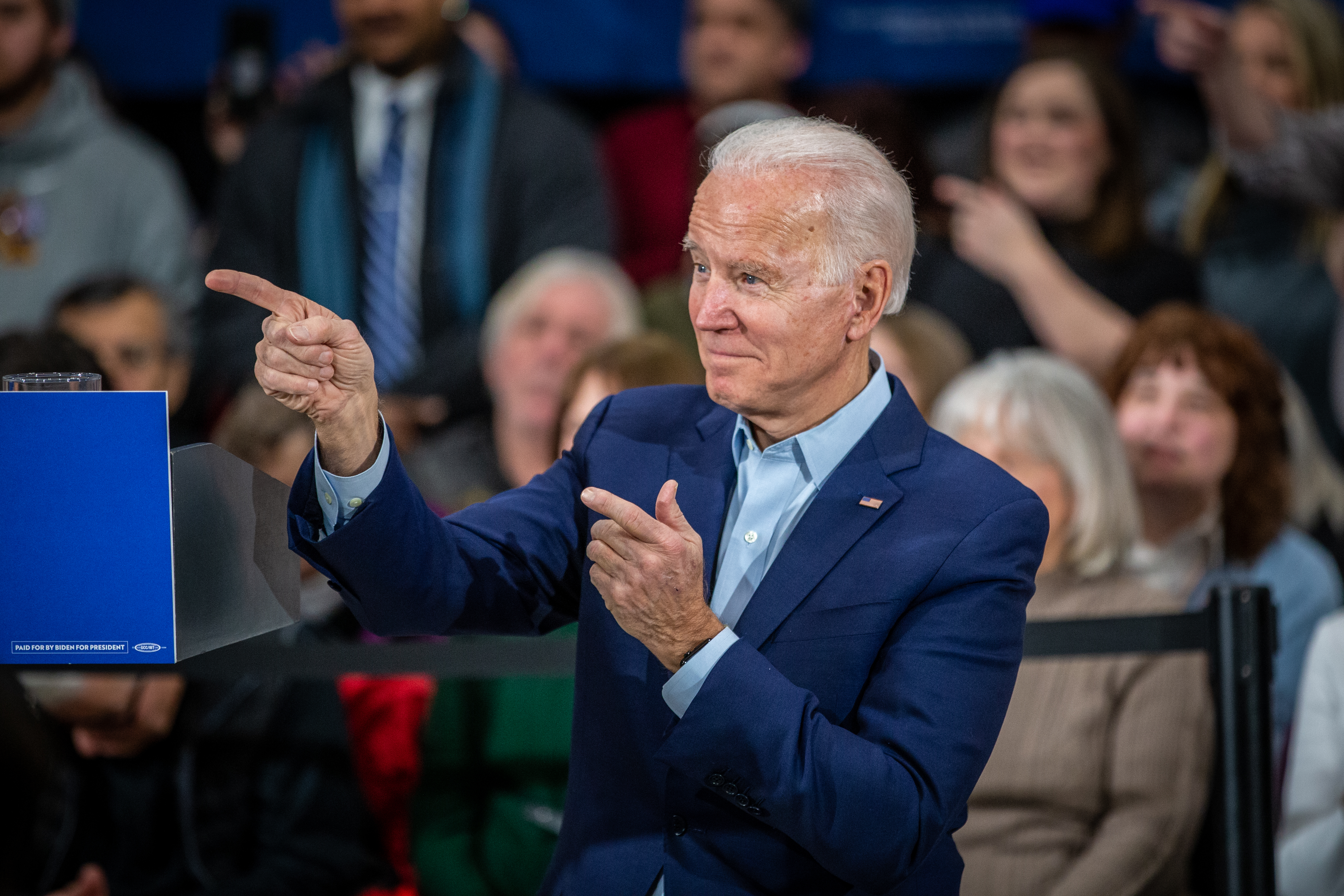 Vice President Joe Biden holds an event with voters in the gymnasium at McKinley Elementary School in Des Moines, where he addressed a number of issues including the recent escalation with Iran. Iowa member of Congress Abby Finkenauer was also on hand to announce her endorsement of Biden.